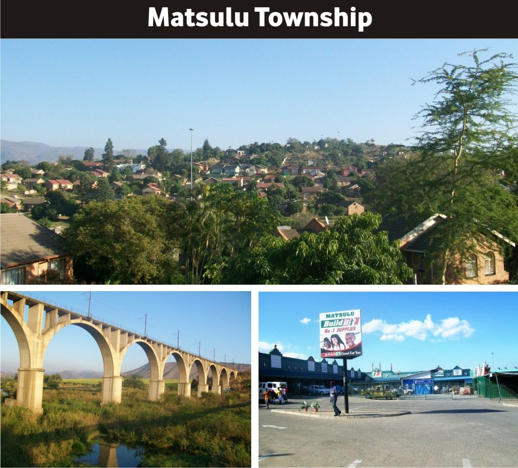 Clockwise From the Top: A view of Matsulu C, Spoornet Train Bridge crossing through Matsulu, Matsulu Shopping Complex